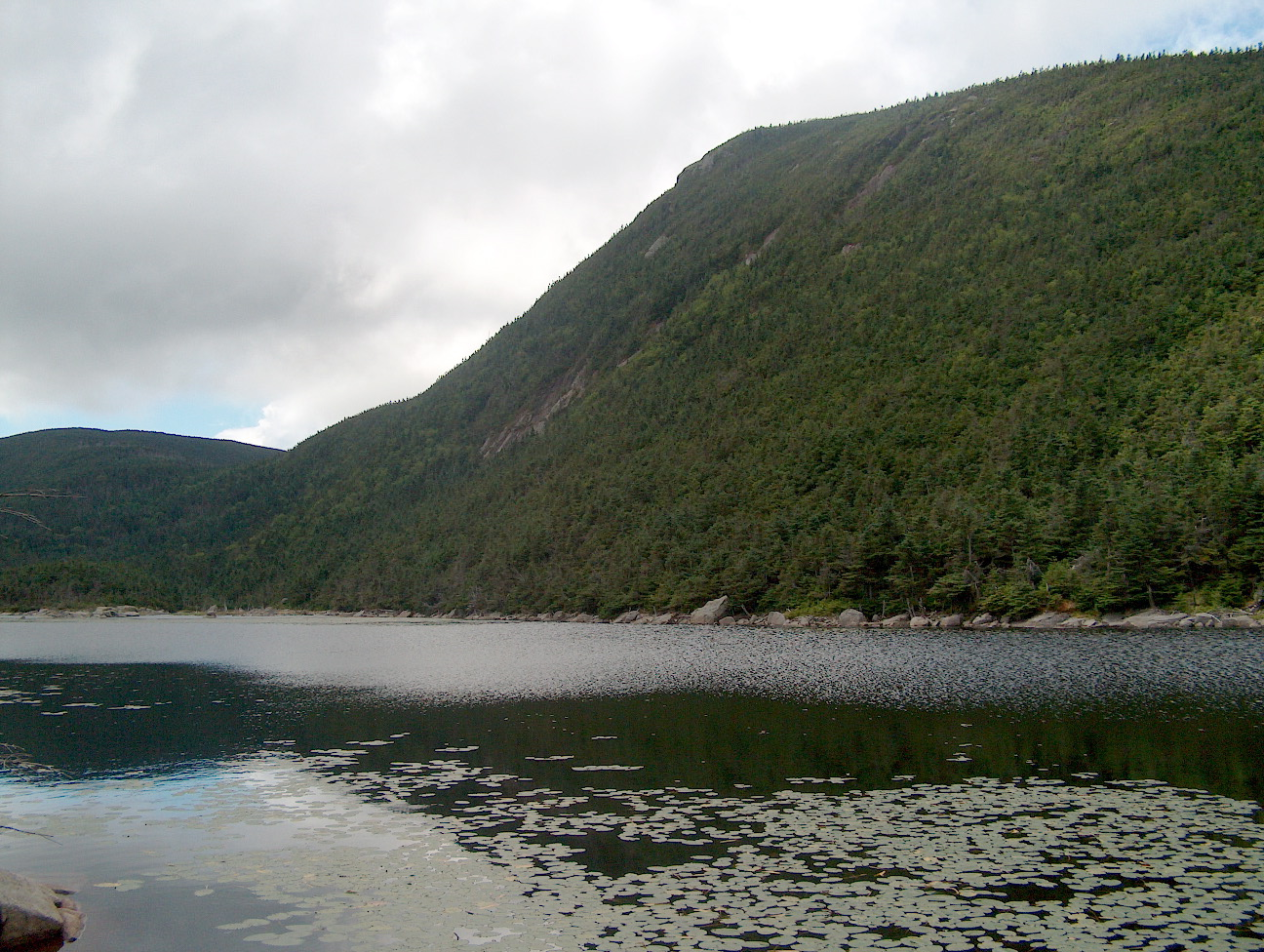 North Peak of Kinsman Mountain in the White Mountains of New Hampshire. Photo by Ken Gallager, August 2004.